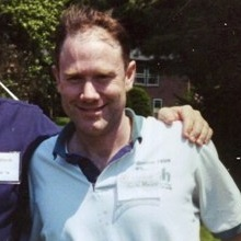 Cropped version of Eaglebrook School June 2000 Reunion photograph cropped to show only Rusty Magee.